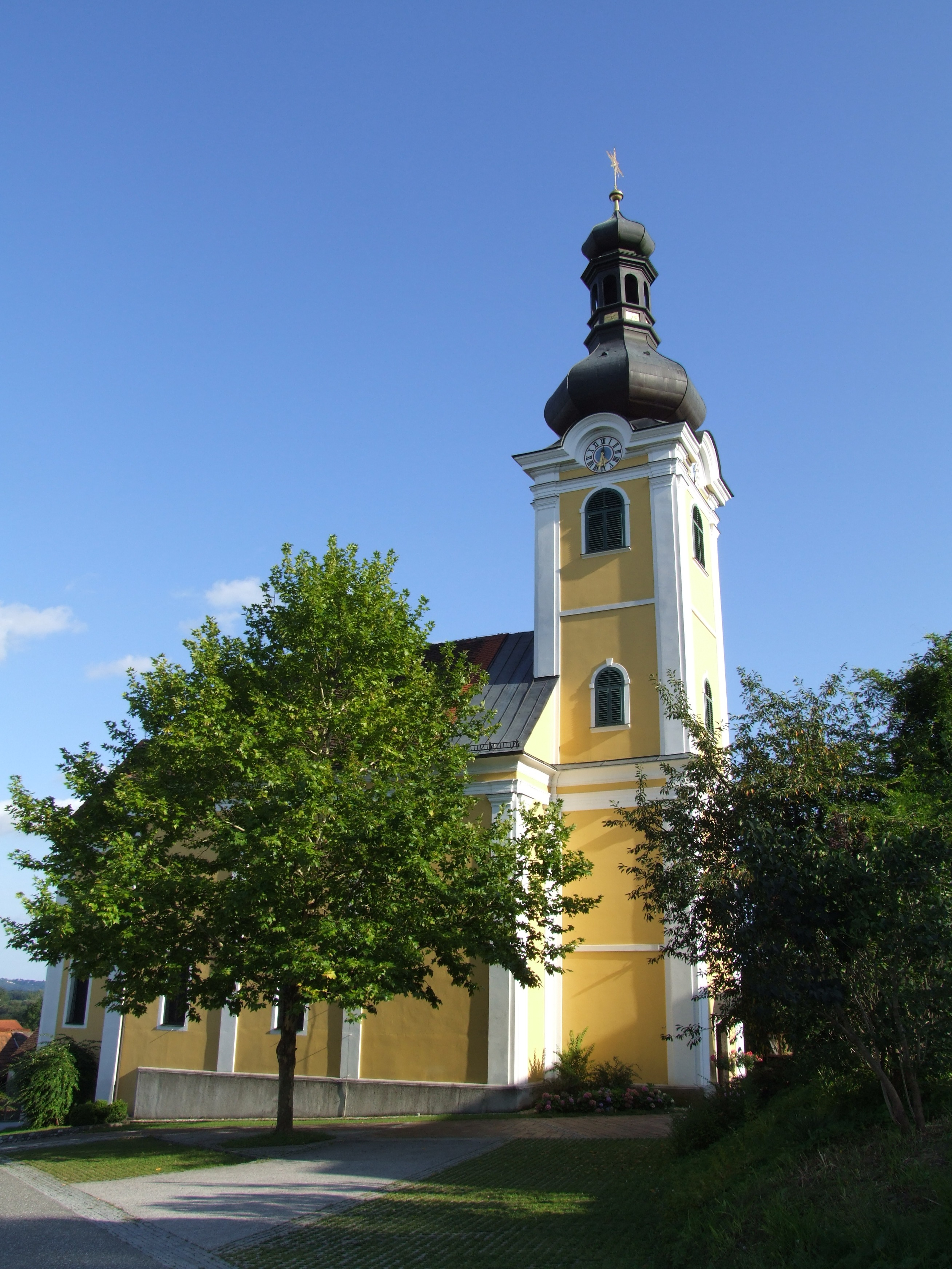 St. Sebastian (Bad Blumau)